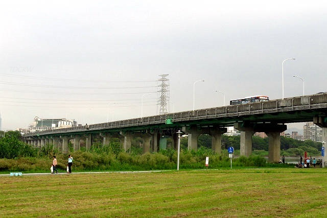 中文（台灣）: 華翠大橋(Huacui Bridge) was filmed by TDCKW on 20171117